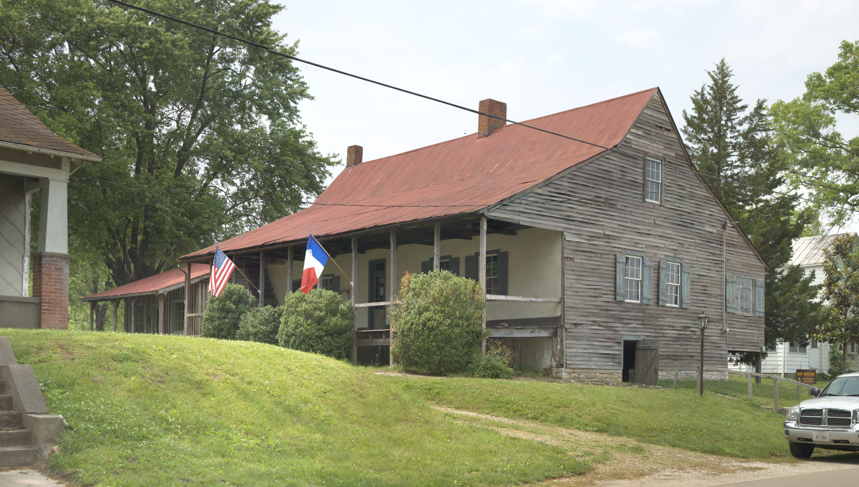 This is a recent photograph of the Amoureaux House in Ste. Geneviève, Missouri. The Amoureaux House, sometimes called the Bauvais-Amoureux House, was built in in 1793 in Ste. Geneviève, Missouri. It was built by Benjamin Amoureaux, who came from France. It is currently operated as a museum by the Missouri Department of Natural Resources. It is one of three poteaux-en-terre buildings that survive. The others are the Bequet-Ribault House and the Vital St. Gemme Beauvais House I (20 S. Main Street).